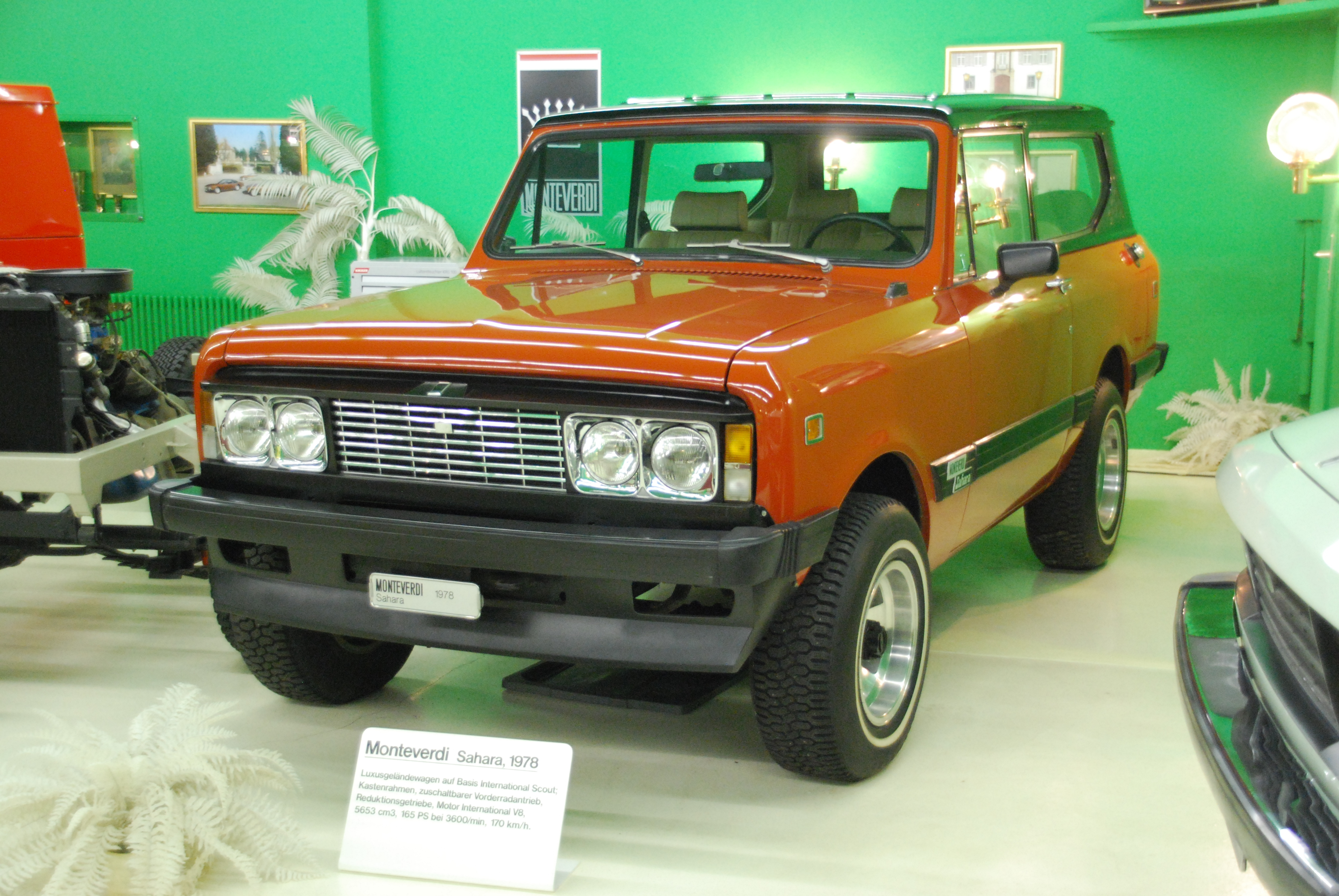 Monteverdi Sahara (1978), shown at the Monteverdi Museum in Basel, Switzerland.